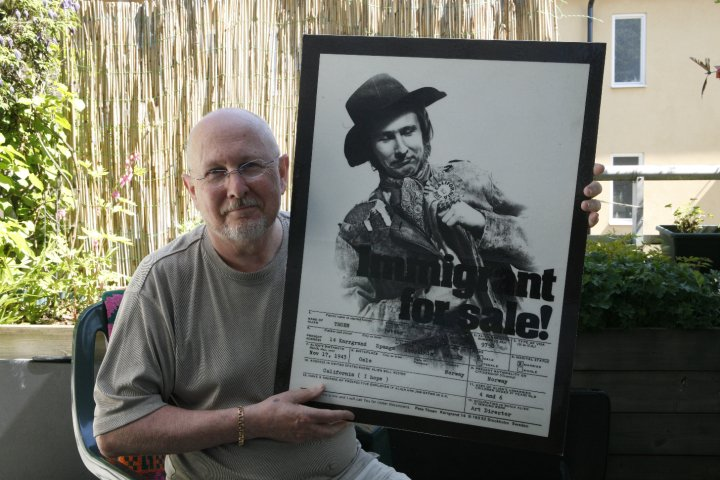 Petter Thoen with the ad that made him move to the US